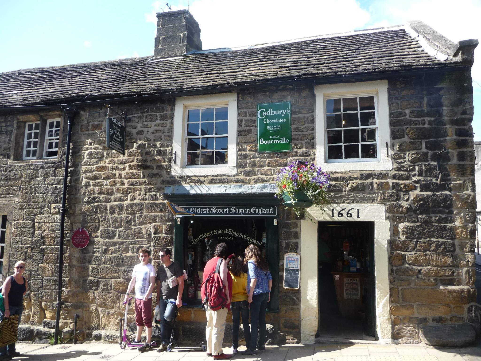 Pateley Bridge, Nidderdale in the Borough of Harrogate, North Yorkshire